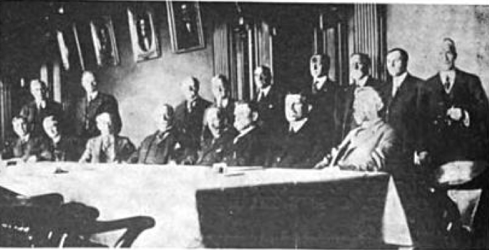 From The Numismatist, May 1916: Standing (left to right)—George E. Roberts. Dr. J. M. Henderson, Charles E. Barber; Robert W. Woolley, Director of the Mint; Benjamin J. Rosenthal, Charles E. Hasler; Jacob B. Eckfelft, Assayer of the Mint; H. O. Granberg; A. M. Joyce, Superintendent of the Mint. Seated—L. A. Fischer, Prof. James Lewis Howe, F. W. Clark; John Skelton Williams, Comptroller of the Currency; George R. Comings, F. E. Tuttle, James H. Moyle and Andrew C. Lawson. According to the Coin World Almanac, 1978 edition, page 265, former Mint Director George E. Roberts was also appointed an Assay Commissioner.